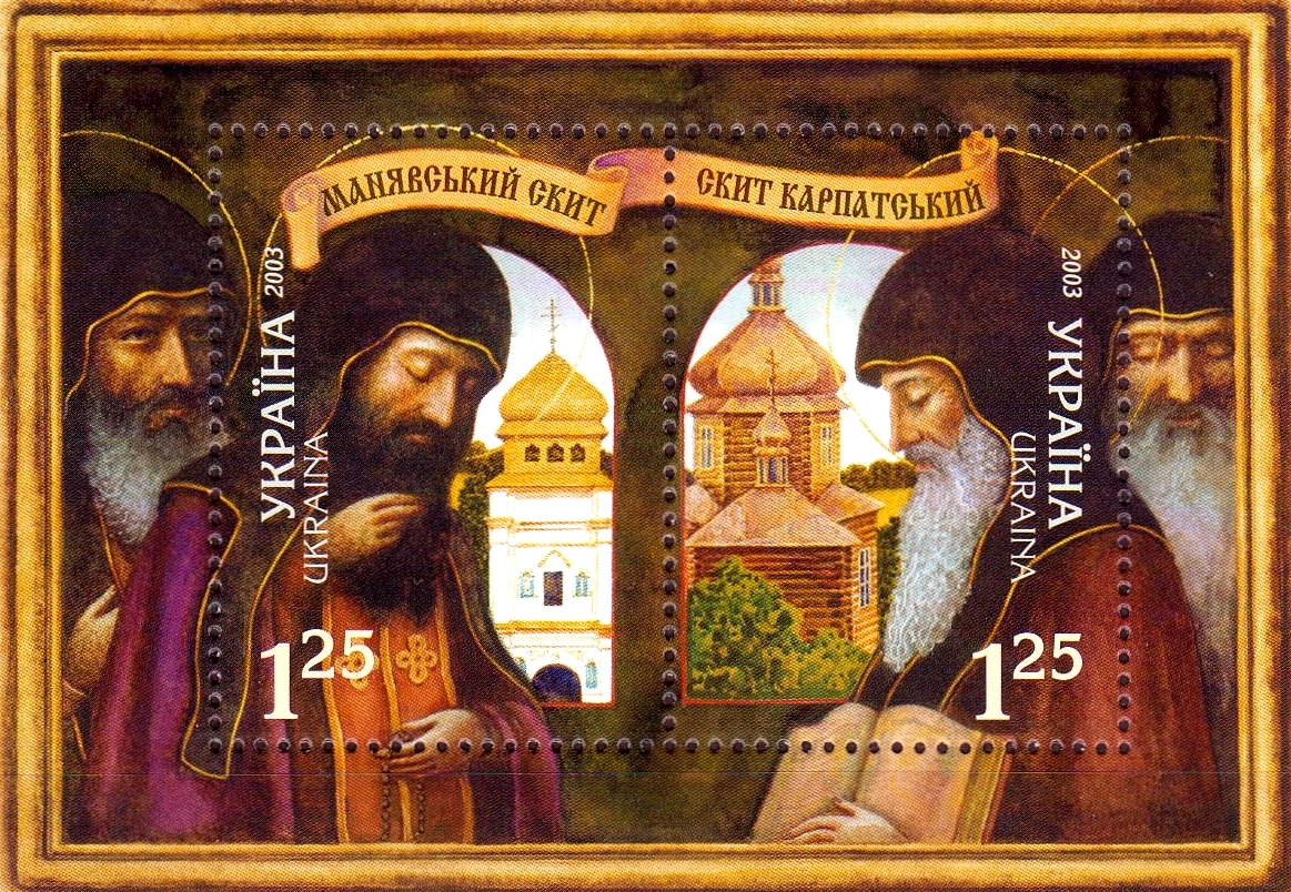 Block Manyava Skete (Saint Job and Saint Theodosius of Manyava, 2003)